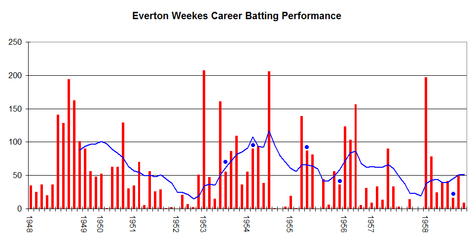 This graph details the Test Match performance of Everton Weekes. It was created by Raven4x4x. The red bars indicate the player's test match innings, while the blue line shows the average of the ten most recent innings at that point. Note that this average cannot be calculated for the first nine innings. The blue dots indicate innings in which Weekes finished not-out. This graph was generated with Microsoft Excel 2002, using data from Cricinfo and .au.